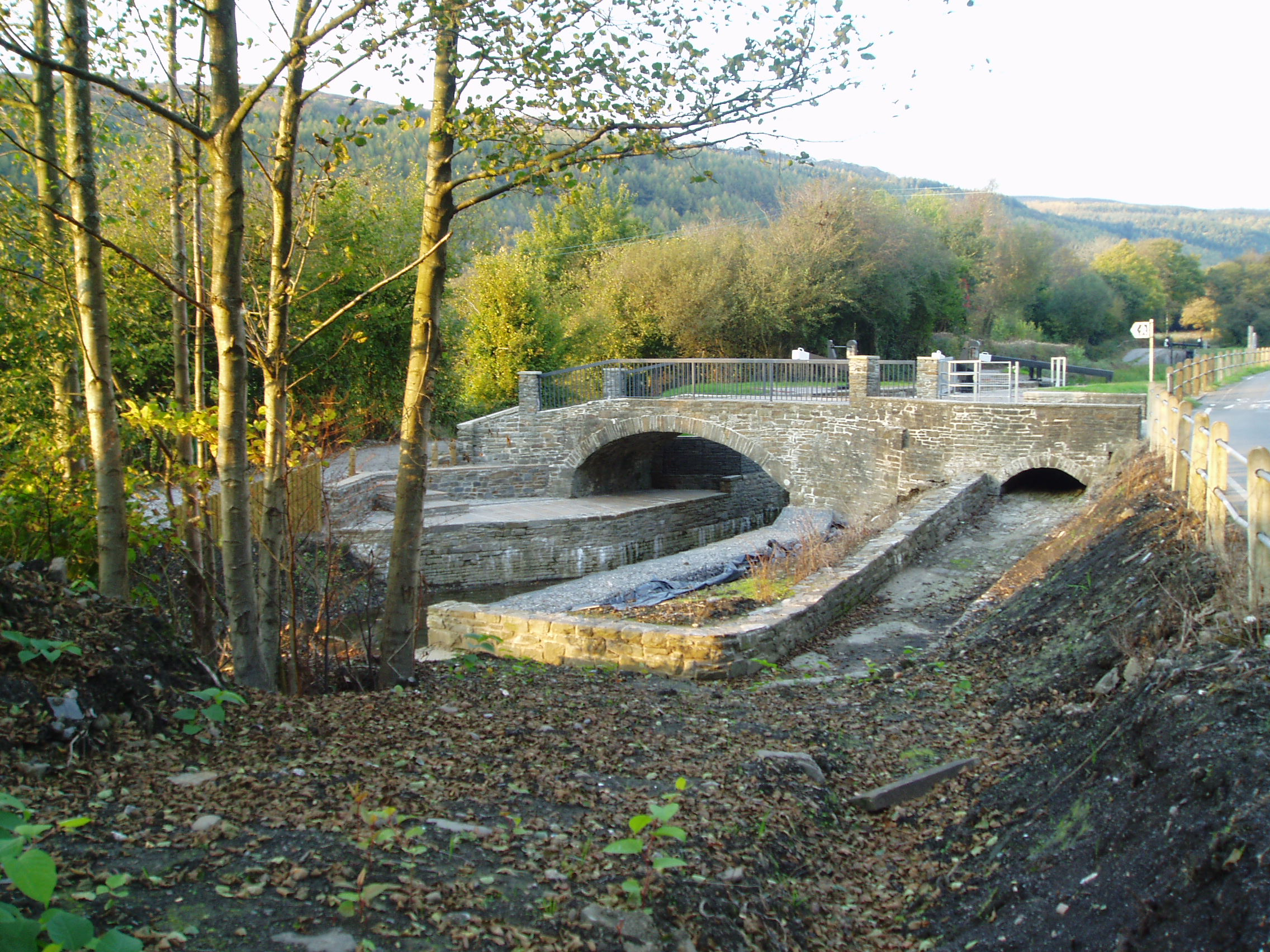 Newly rebuilt Clun Isaf lock on the Neath Canal